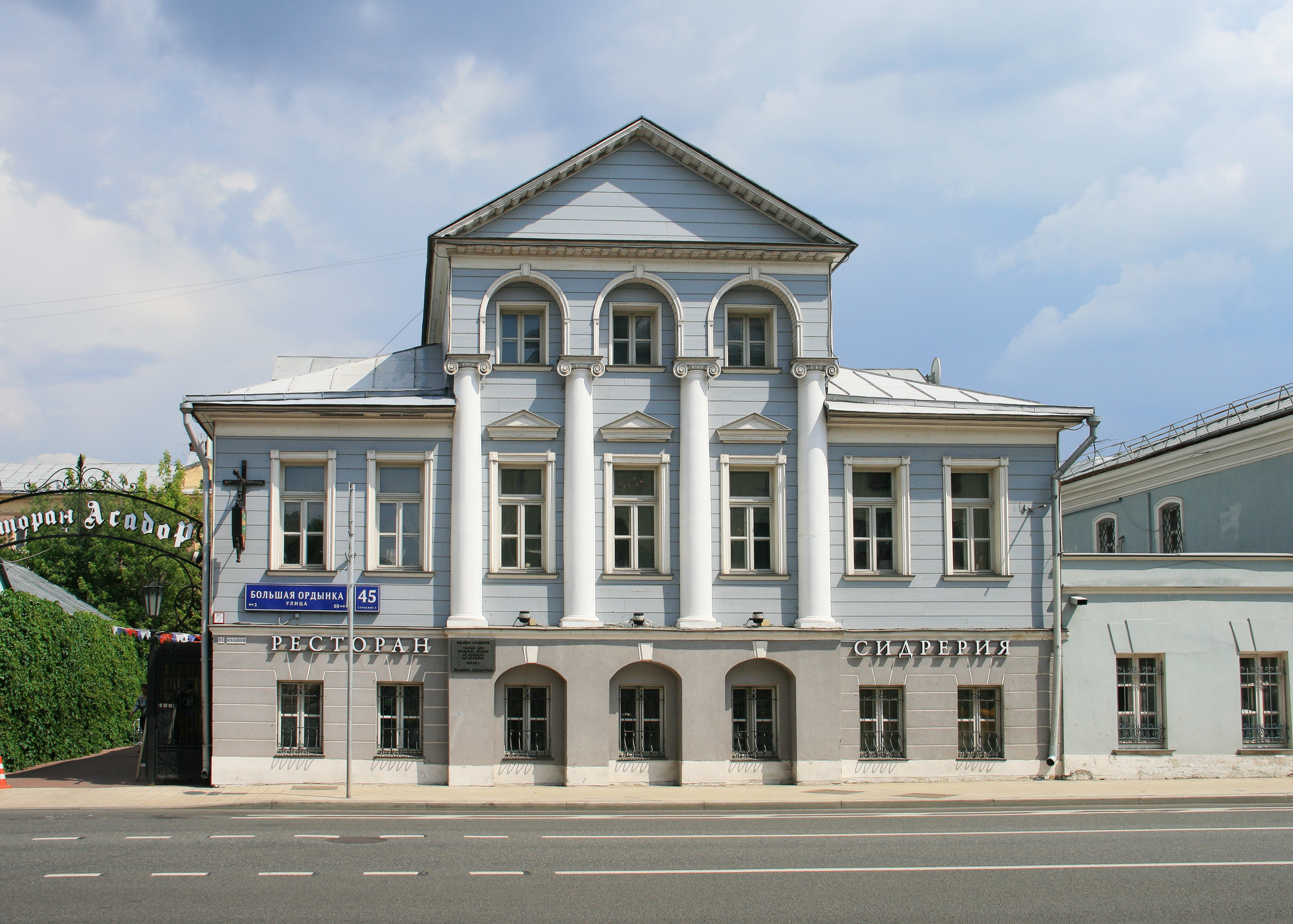 Bolshaya Ordynka Street 45 str 3, Moscow, Russia